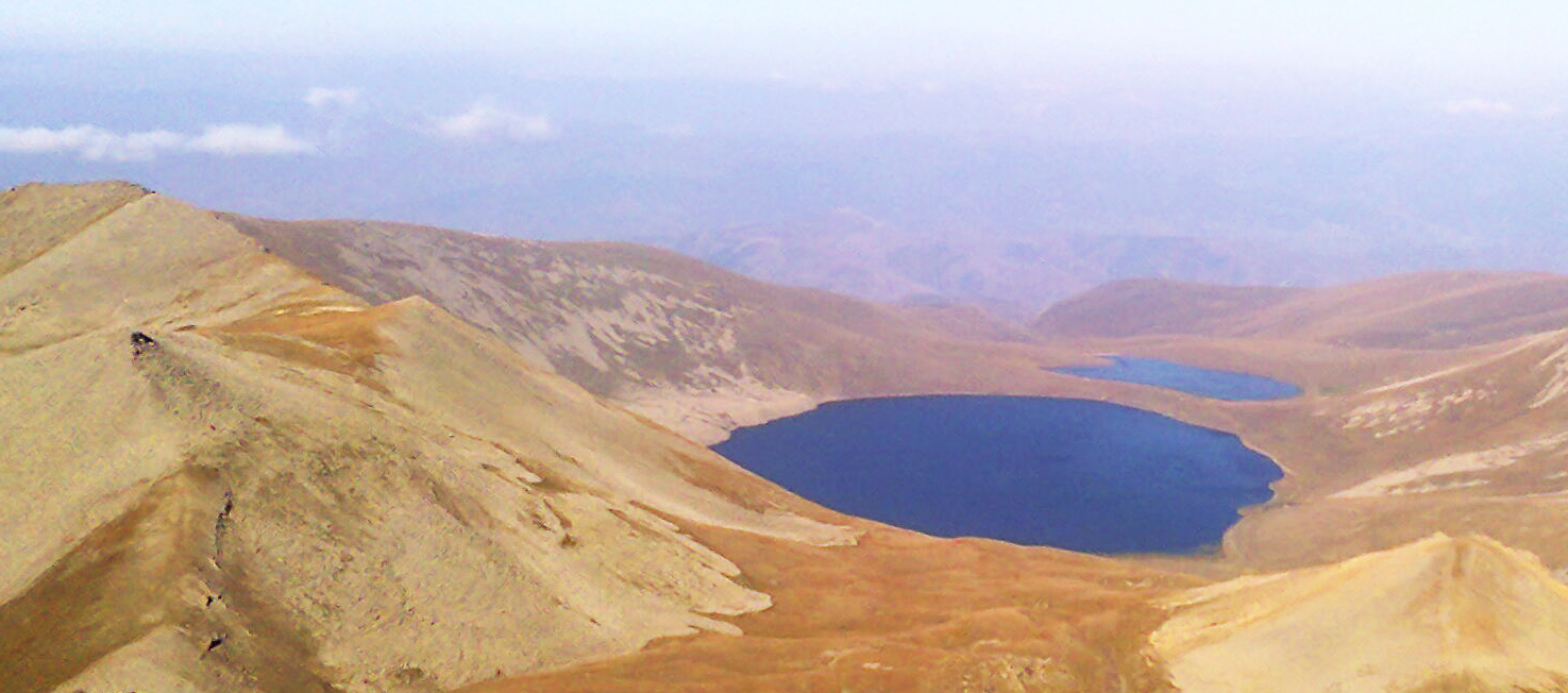 Lake Sev, view from the summit of mount Ishkhanasar